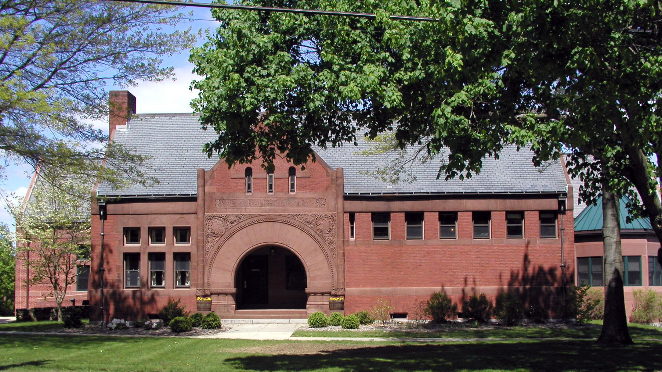 Acton Memorial Library. Cropped and lightly retouched version of File:ActonMemorialLibrary2.jpg.